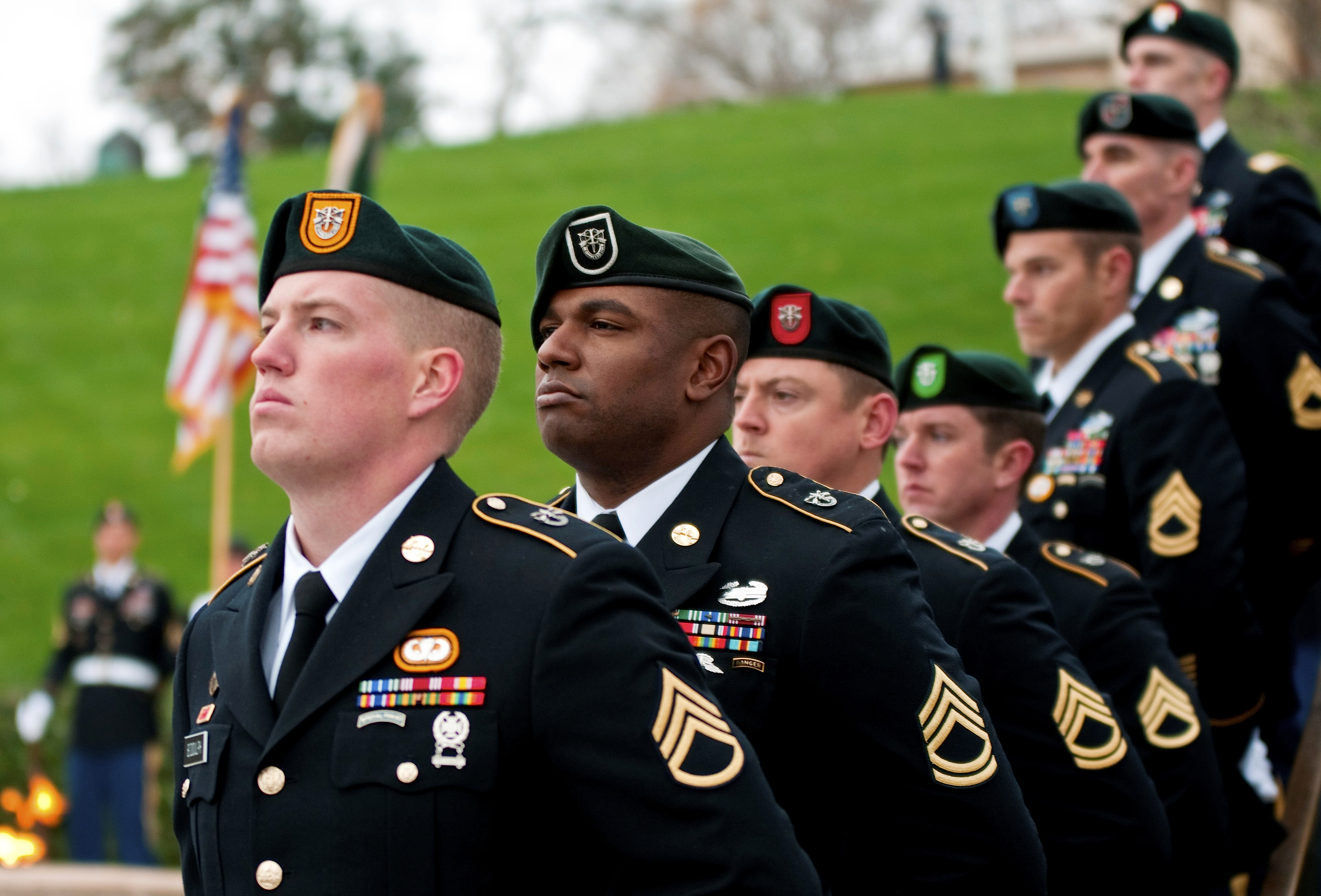 Special Forces Green Beret soldiers from each of the Army’s seven Special Forces Groups stand silent watch during the wreath-laying ceremony at the grave of President John F. Kennedy, Nov. 17, 2011, at Arlington National Cemetery. The ceremony marked a time-honored tradition to honor Kennedy for his support and advocacy of the soldiers who would be known simply as “Green Berets.”